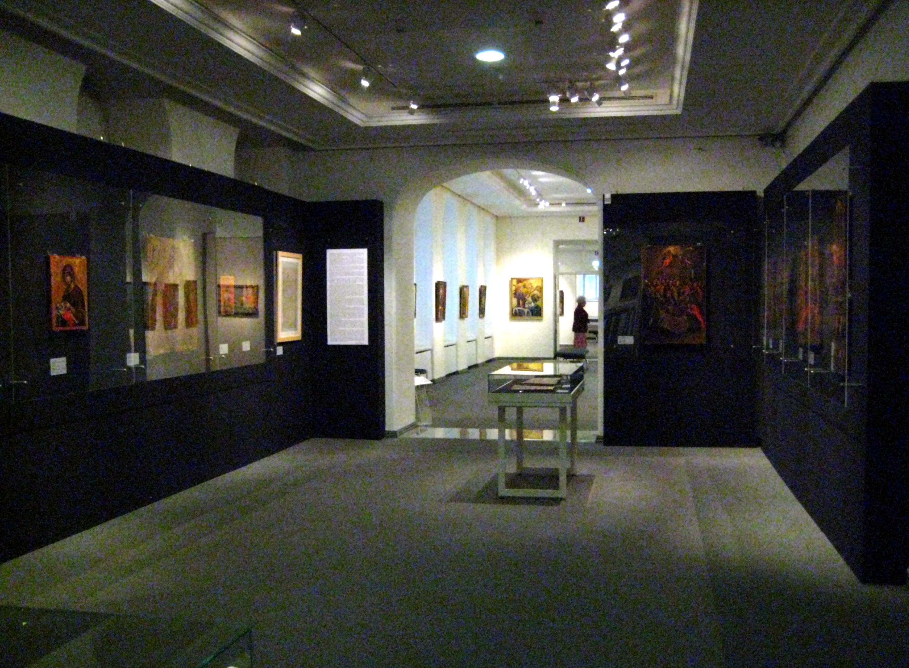 Synaxis_exhibition_(Moscow,_july_2010)